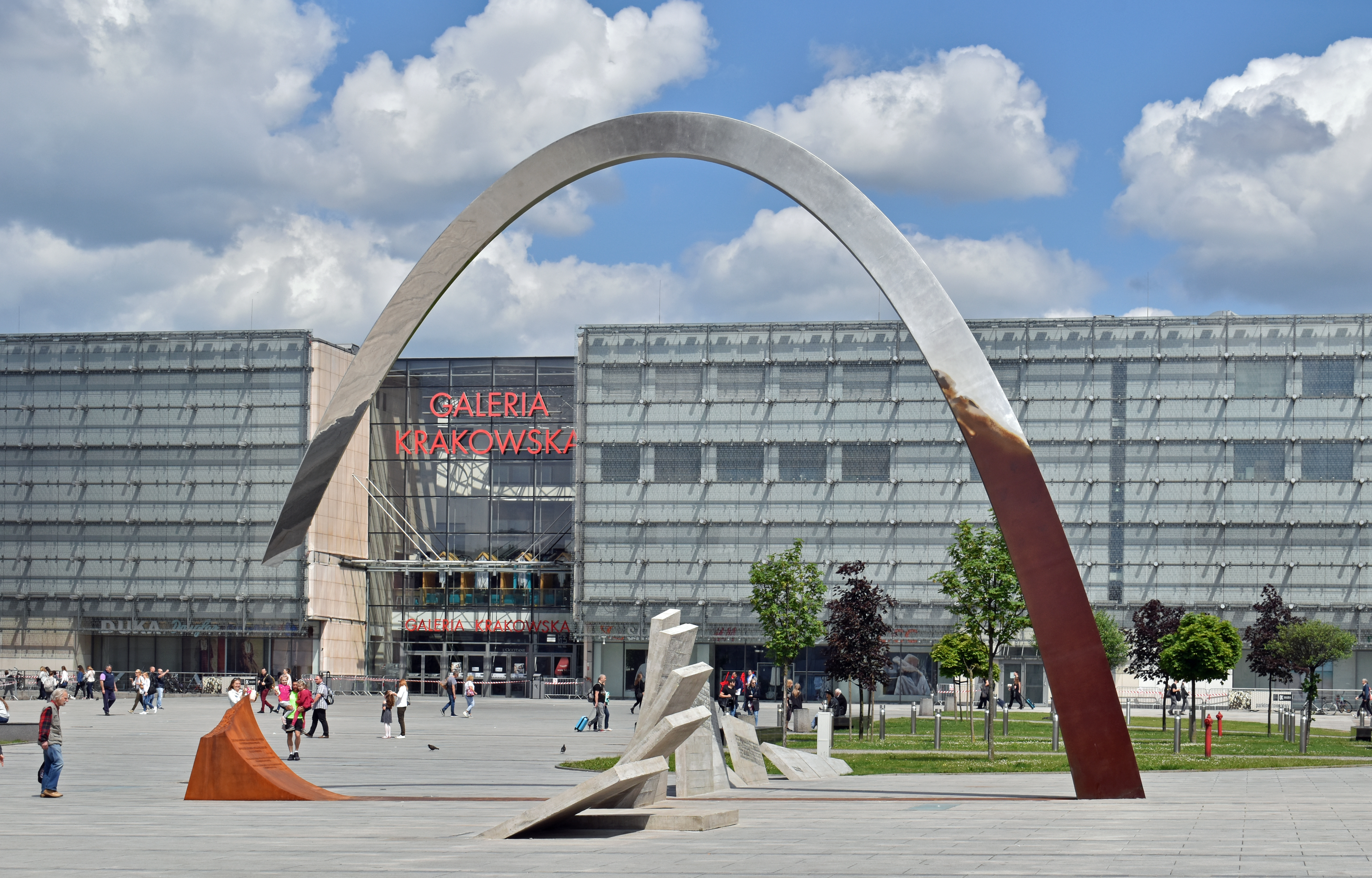 Ryszard Kuklinski monument (2018 design. by Czesław Dźwigaj and Krzysztof Lenartowicz), Jan Nowak-Jezioranski Square, Krakow, Poland